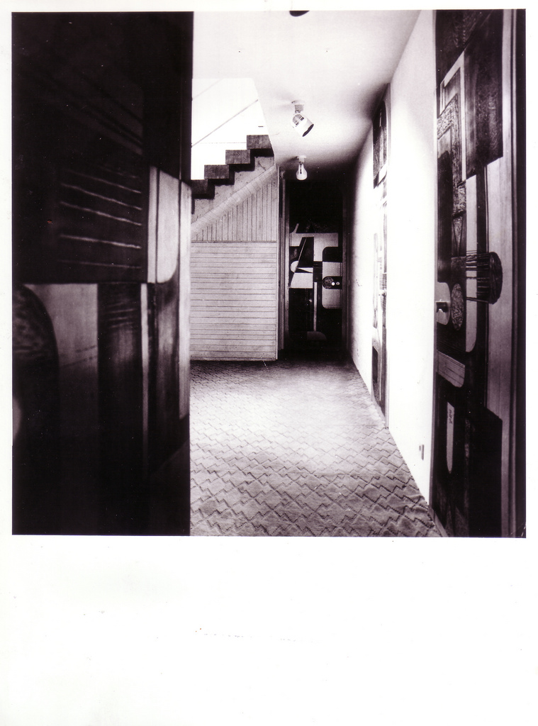 House Saier - Glanville (France) Arch. Marcel Breuer